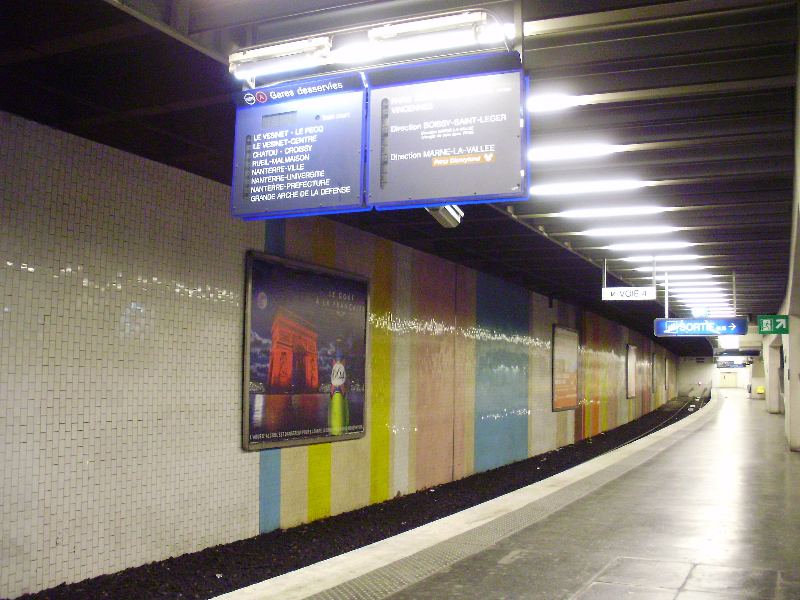 Saint-Germain-en-Laye station, Yvelines, France (informations panel on stations served by the next train)